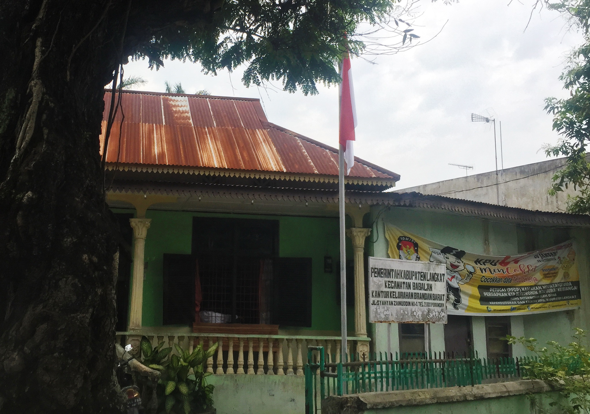 Office of Brandan Barat, Babalan, Langkat, North Sumatra, Indonesia.